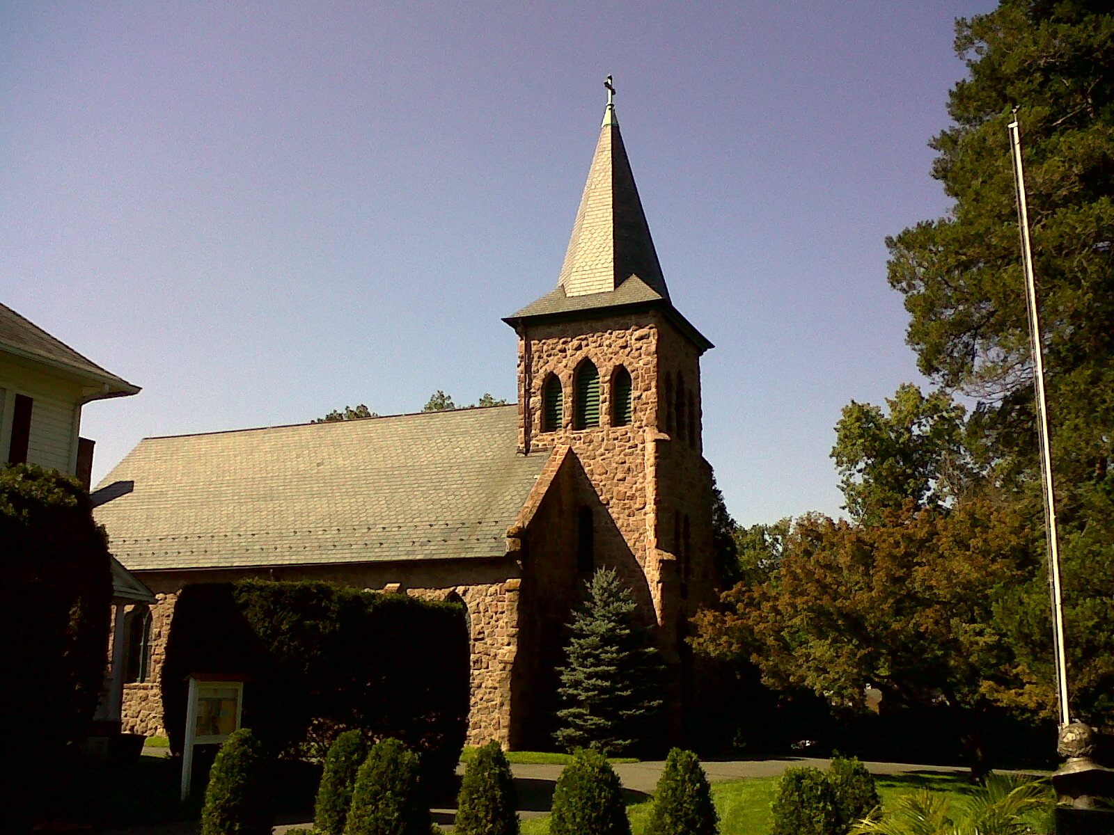 St. John the Evangelist Catholic Church in Silver Spring, Maryland that was built in 1894 in an area sometimes considered to be Forest Glen, Maryland. It is now used a traditional Latin Mass congregation and by the Our Lady of Poland and St. Maximillian Kolbe congregation.